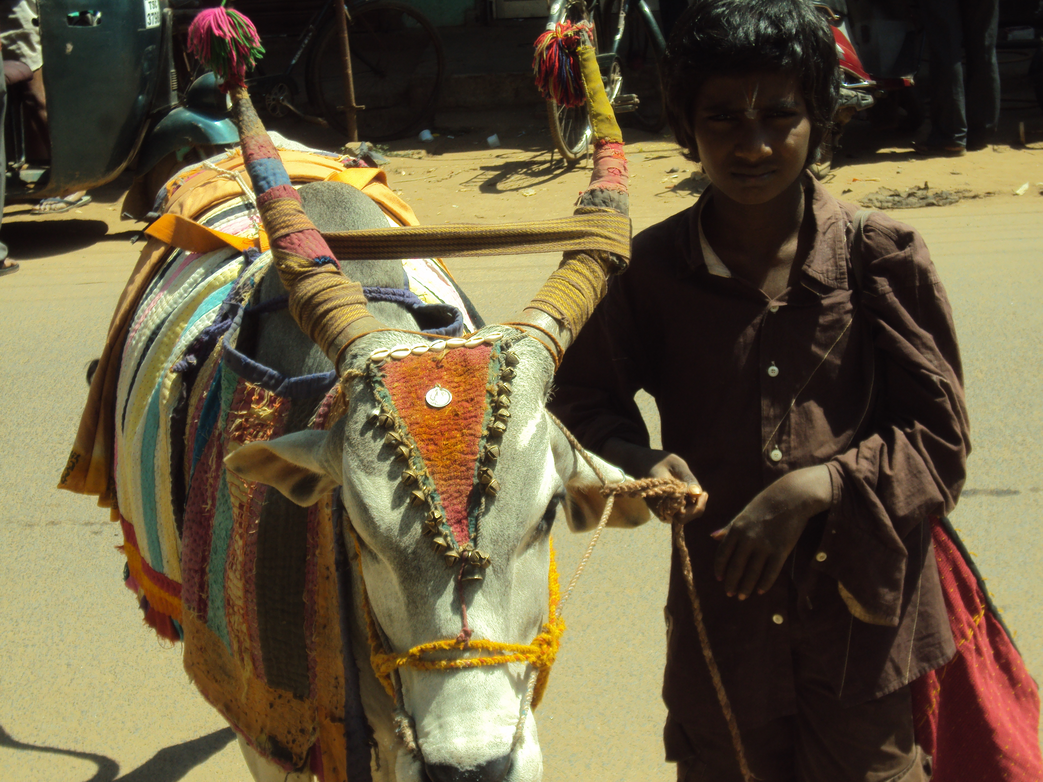 Known as Boom Boom Maadu in local parlance, this decorated bull is used for getting alms.